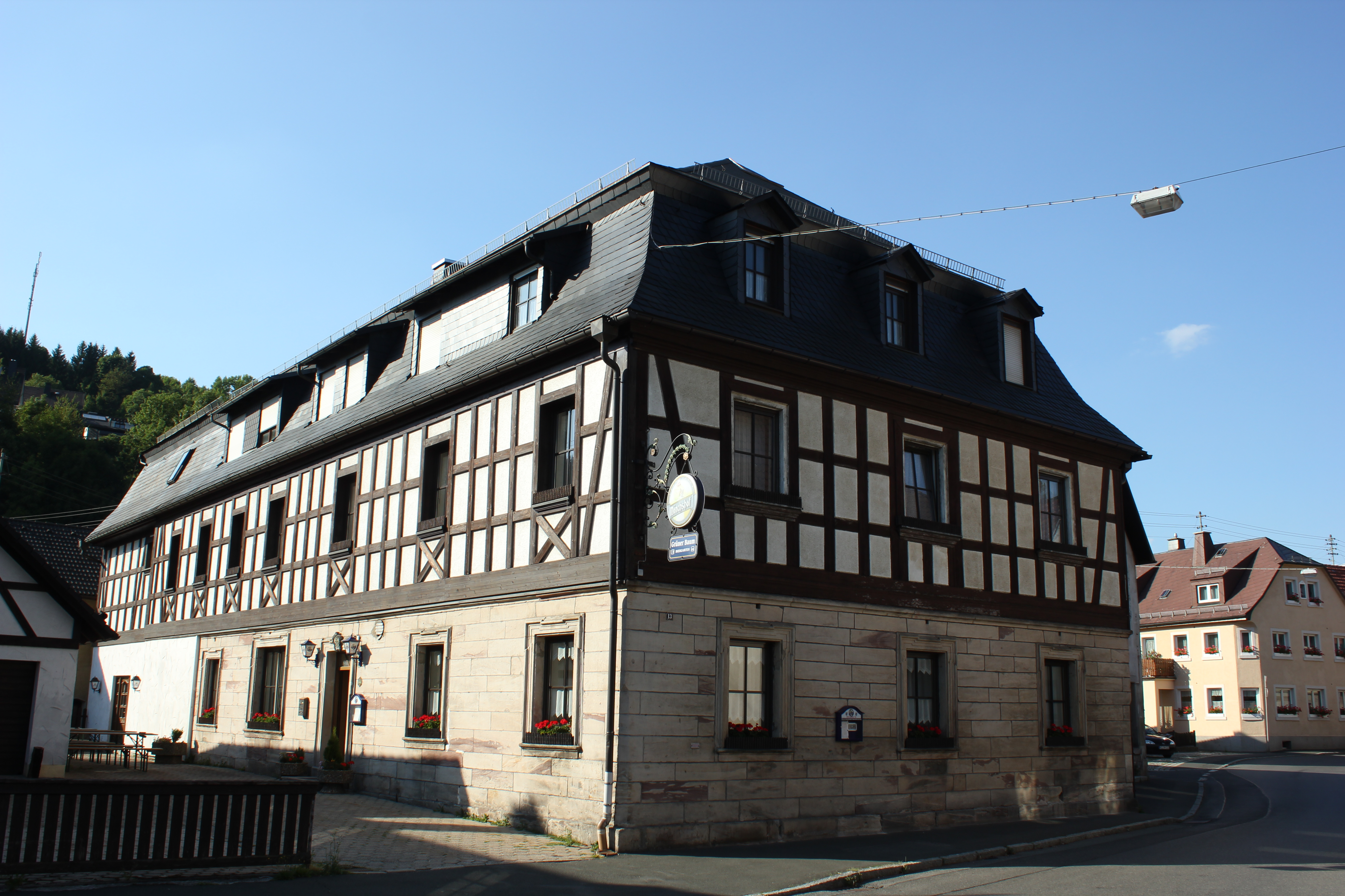 Steinwiesen Nordhalbener Strasse 13, Gasthof Grüner Baum